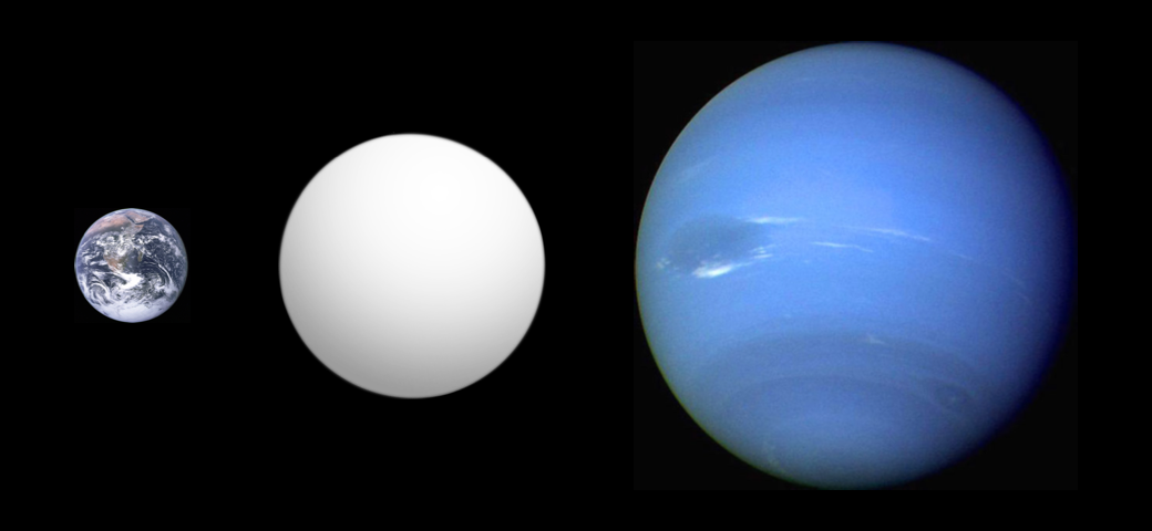 Comparison of best-fit size of the exoplanet Kepler-10c with the Solar System planets Earth and Neptune, as reported in the Open Exoplanet Catalogue[1] as of 2014-06-16. ↑ Open Exoplanet Catalogue (2010-09-30). Retrieved on 2010-09-30.